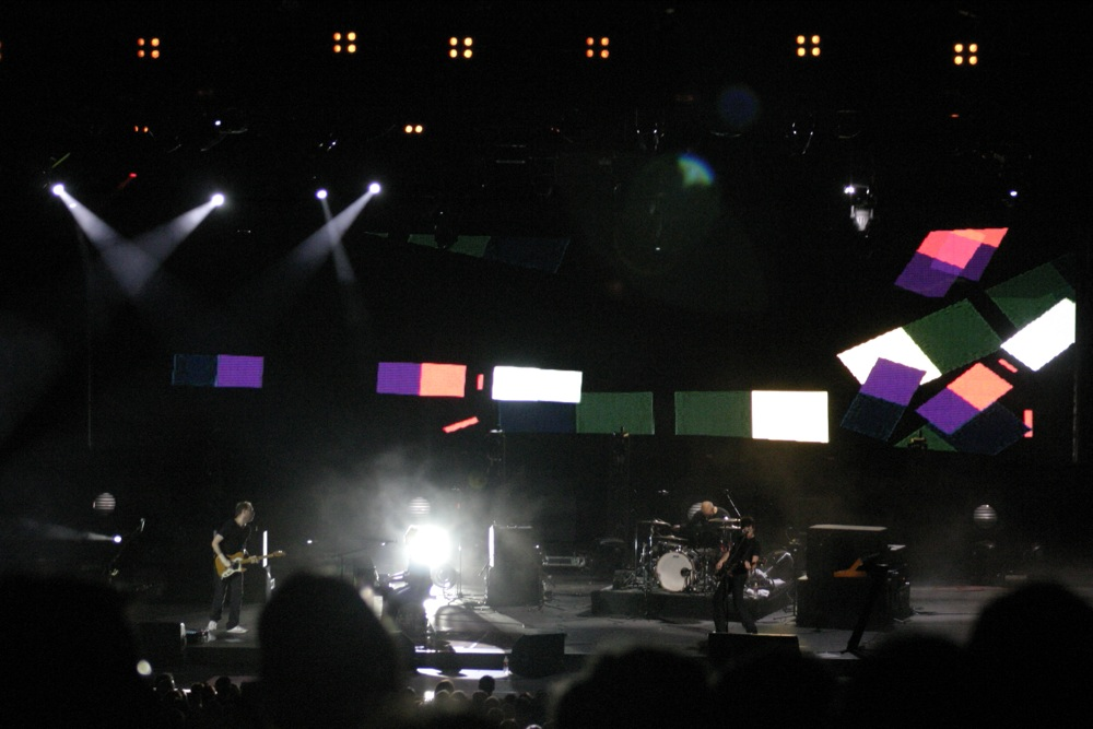 Coldplay performing their song "Clocks" on the Twisted Logic Tour. Photo taken on September 21, 2005.